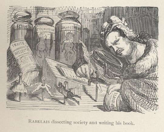 Illustration for Gargantua and Pantagruel by French artist, Gustave Dore.